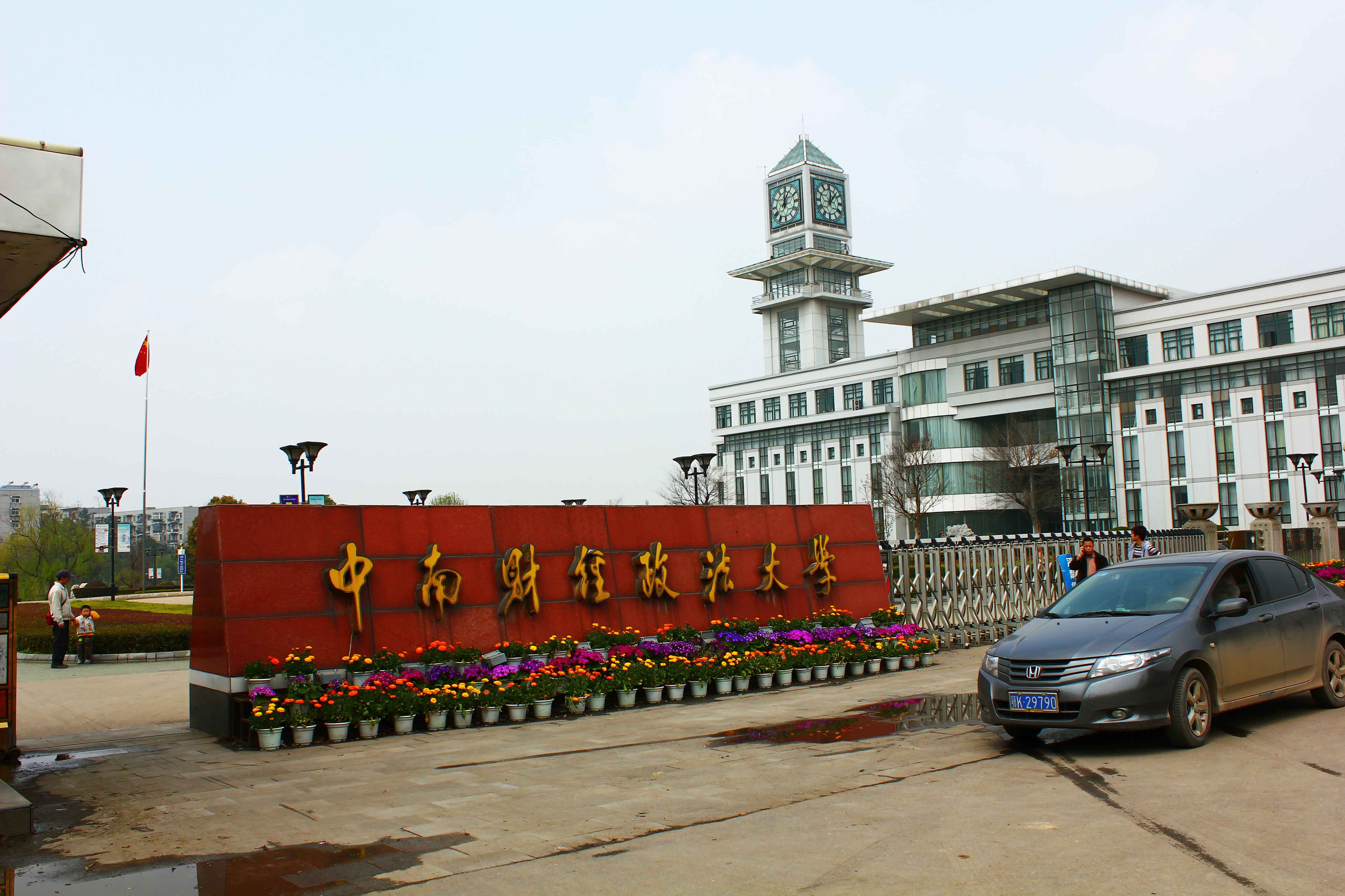 The South Lake Campus of Zhongnan University of Economics and Law